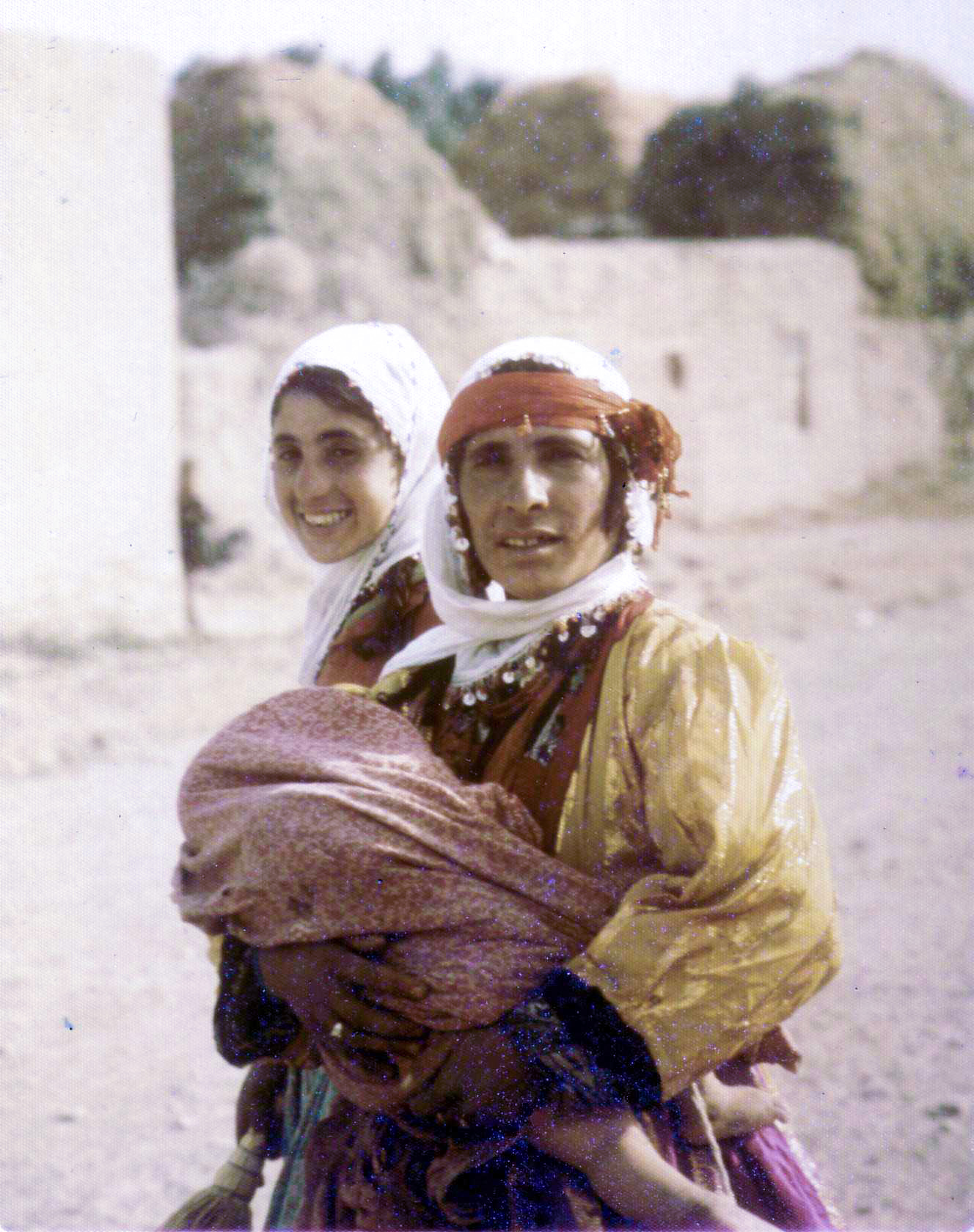 I took this photo myself in 1973. John Hill 03:18, 28 August 2007 (UTC)